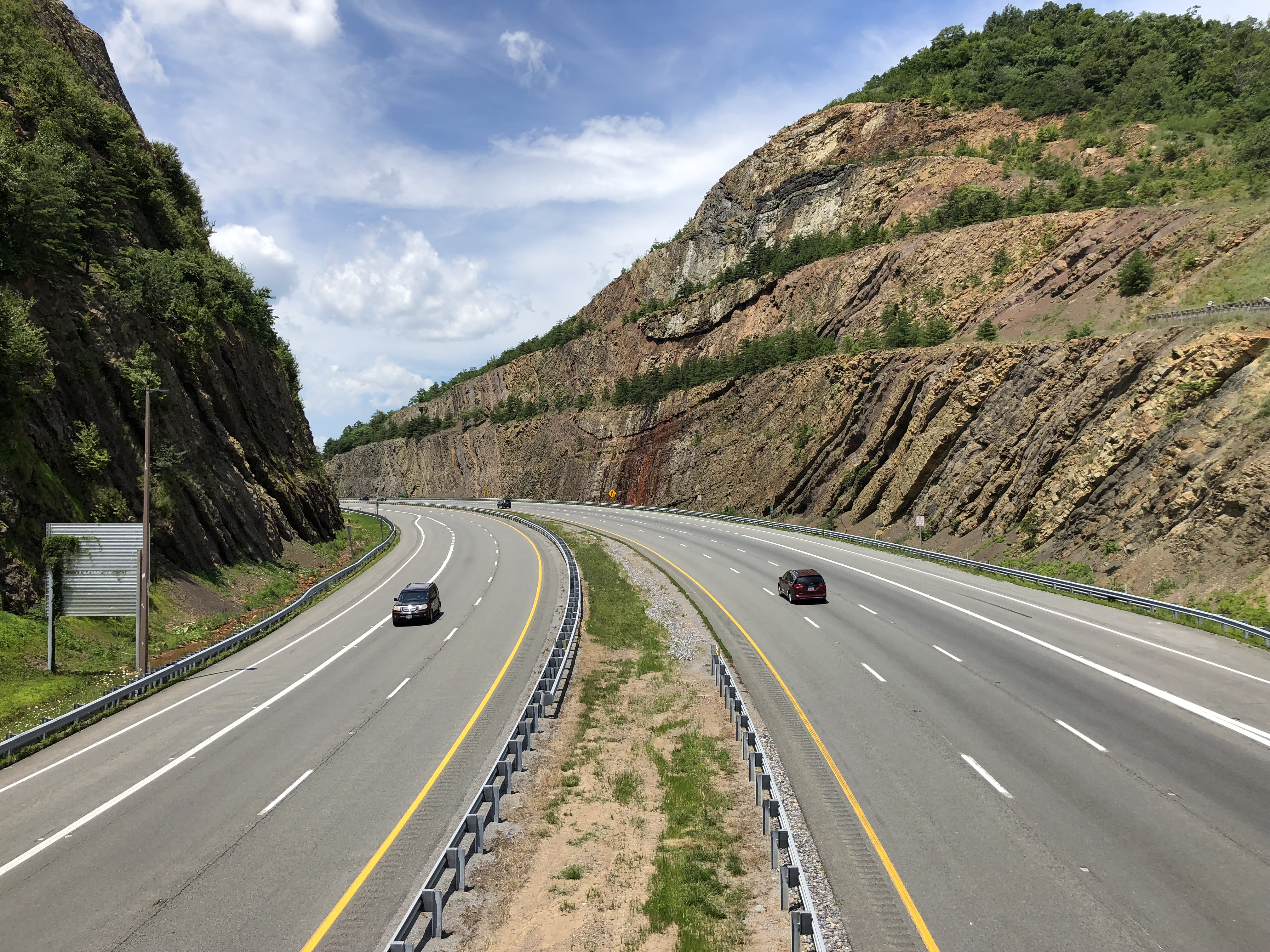 View west along Interstate 68 and U.S. Route 40 (National Freeway) from the Victor Cushwa Memorial Bridge as it passes through the Sideling Hill Road Cut in Forest Park, Washington County, Maryland